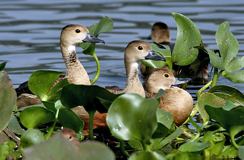 Lesser-whistling Duck (Dendrocygna javanica) in Kolkata, West Bengal, India.